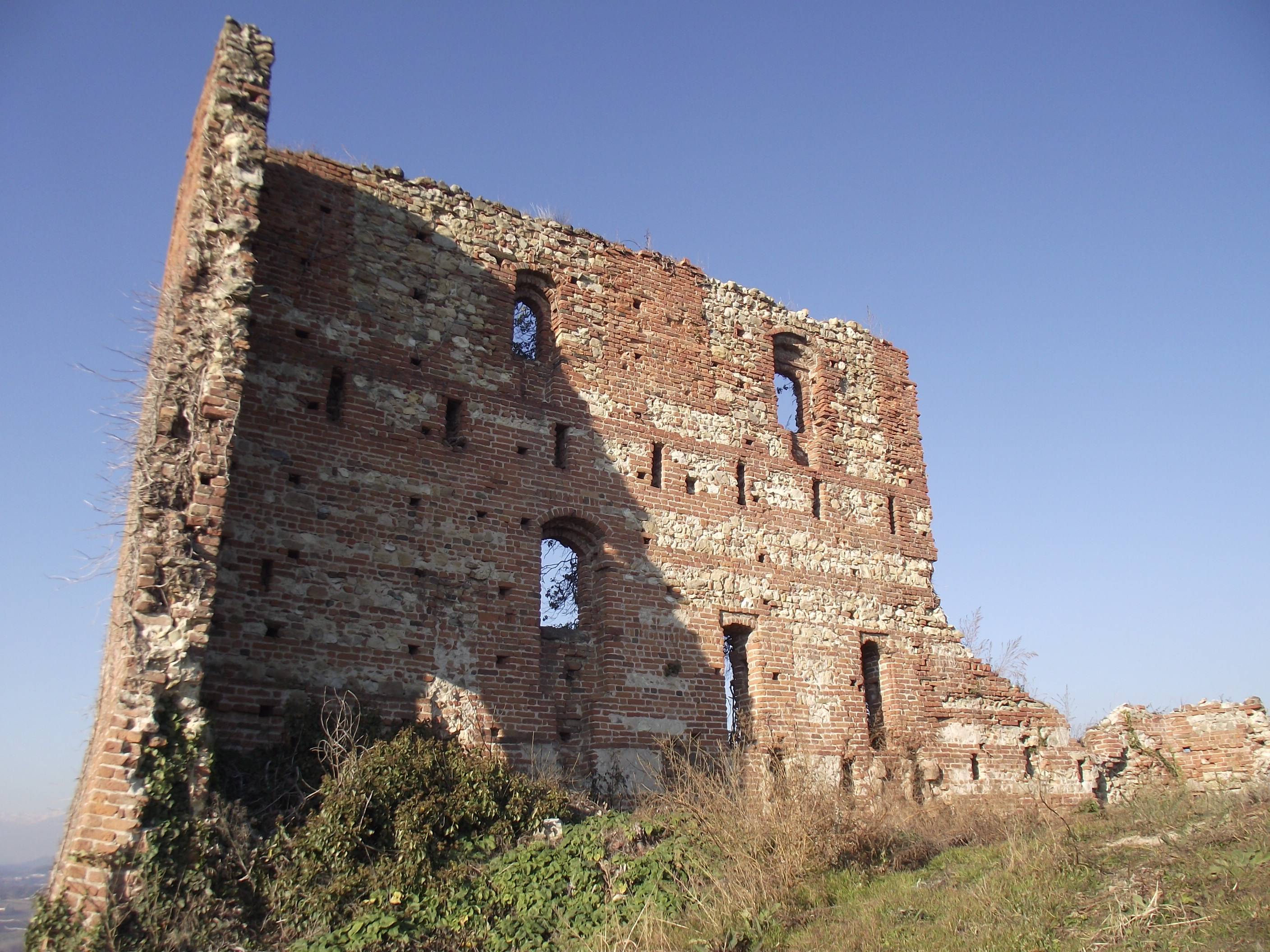 Marmorito castle